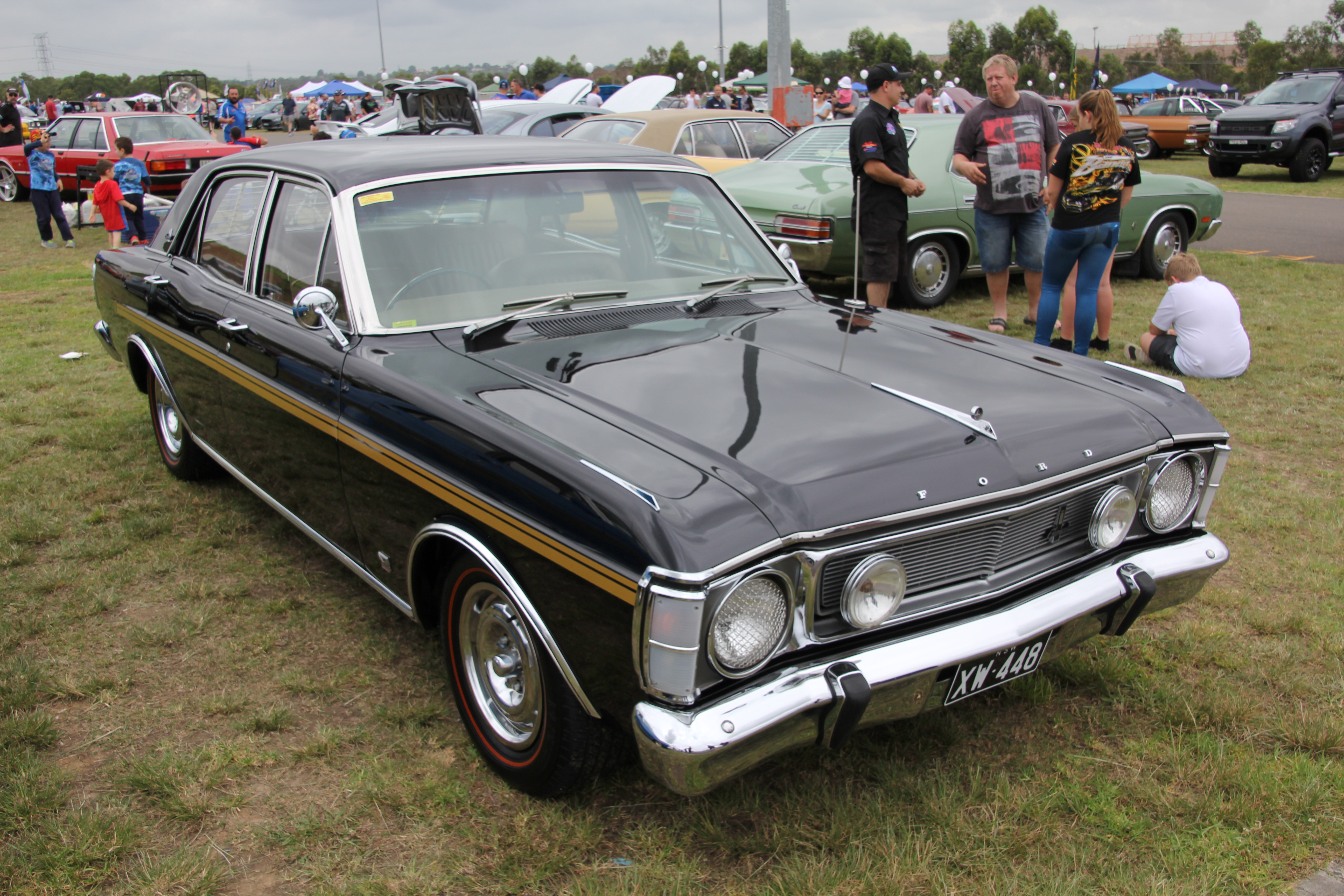 1970 Ford XW Fairmont GS sedan